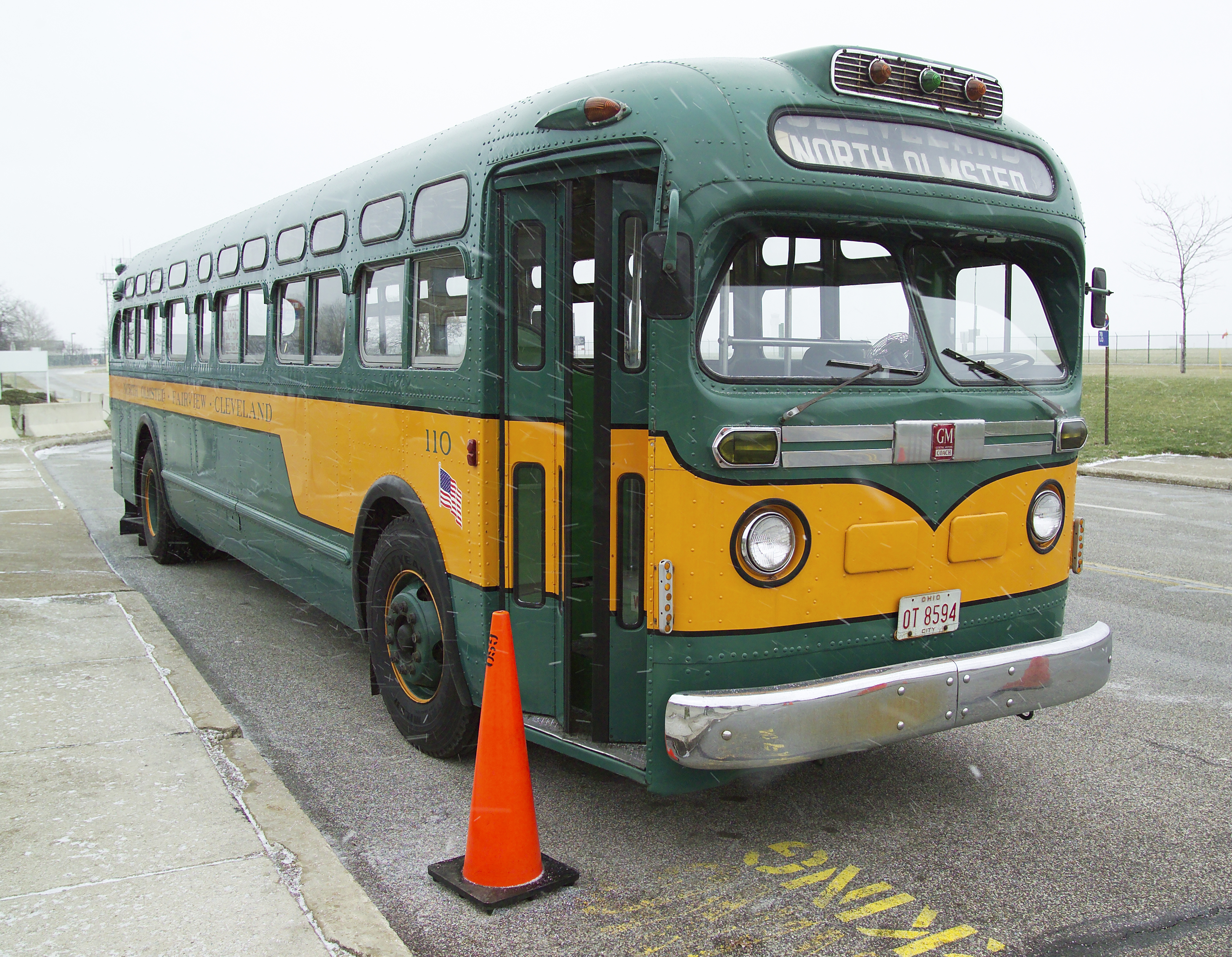 Historic GM Old Look type bus of the former North Olmsted Municipal Bus Line (NOMBL) that once served North Olmsted, Ohio, United States.